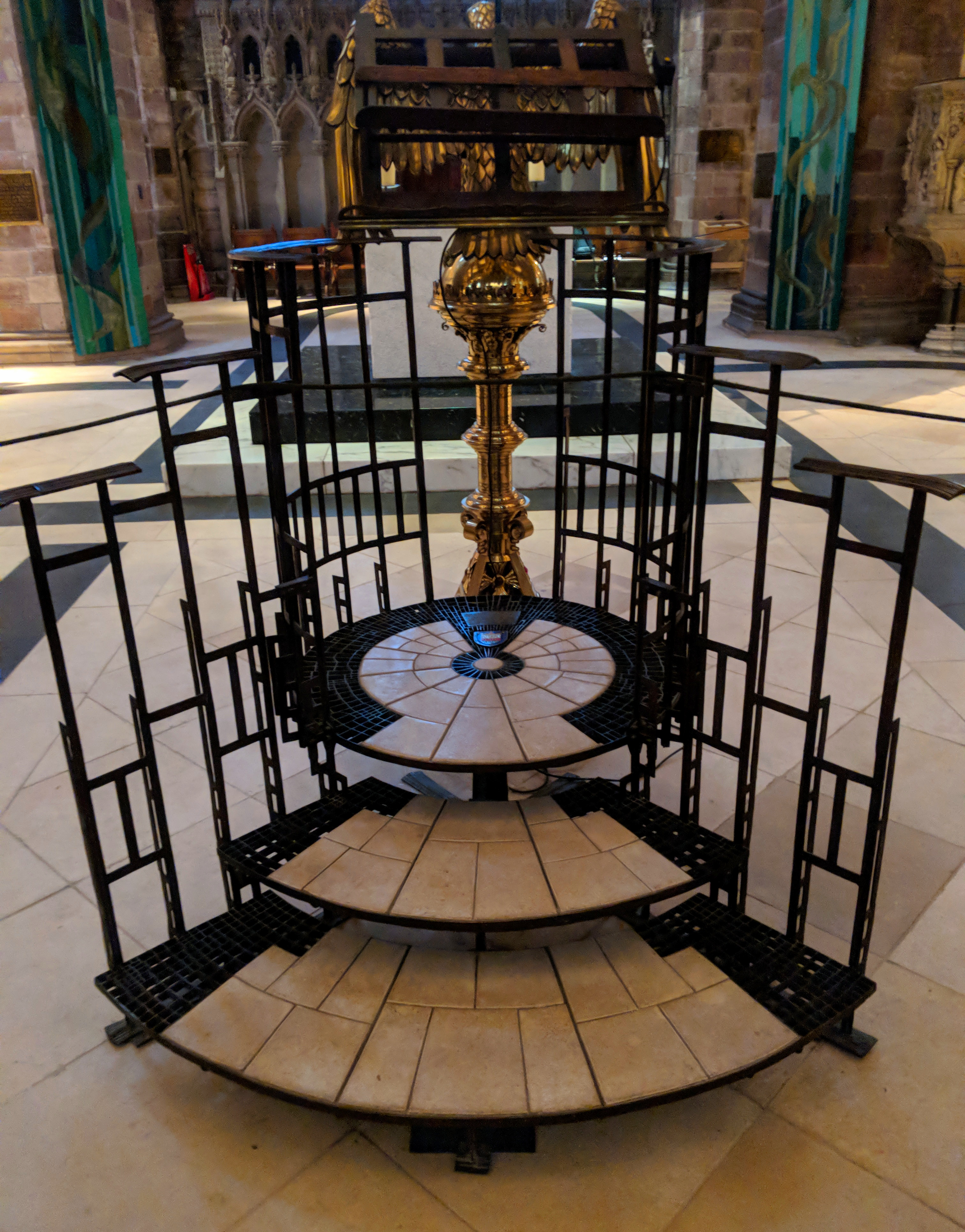 St Giles' Cathedral, High Street, Royal Mile, Edinburgh Wikidata has entry Q1547466 with data related to this item.